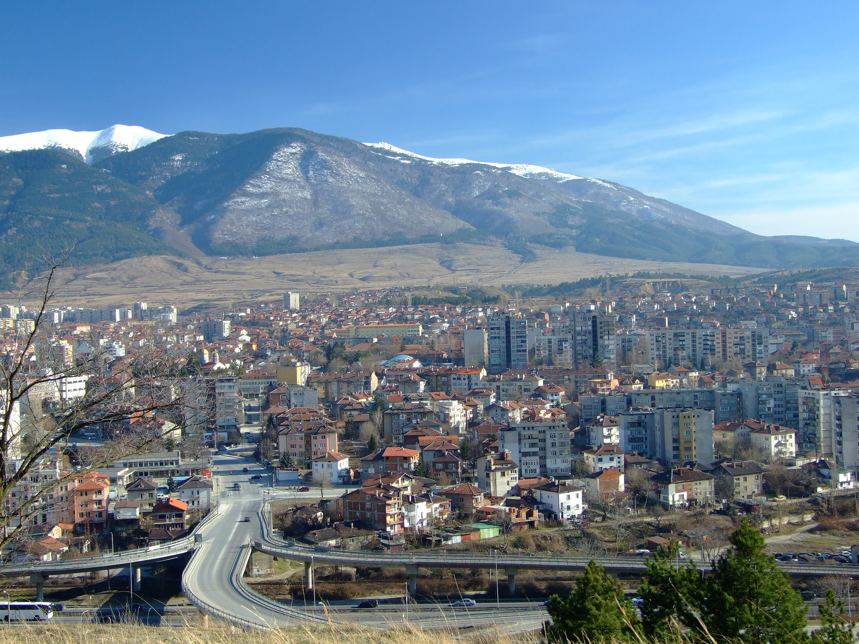 view of the Rila Mountain Dupnitsa